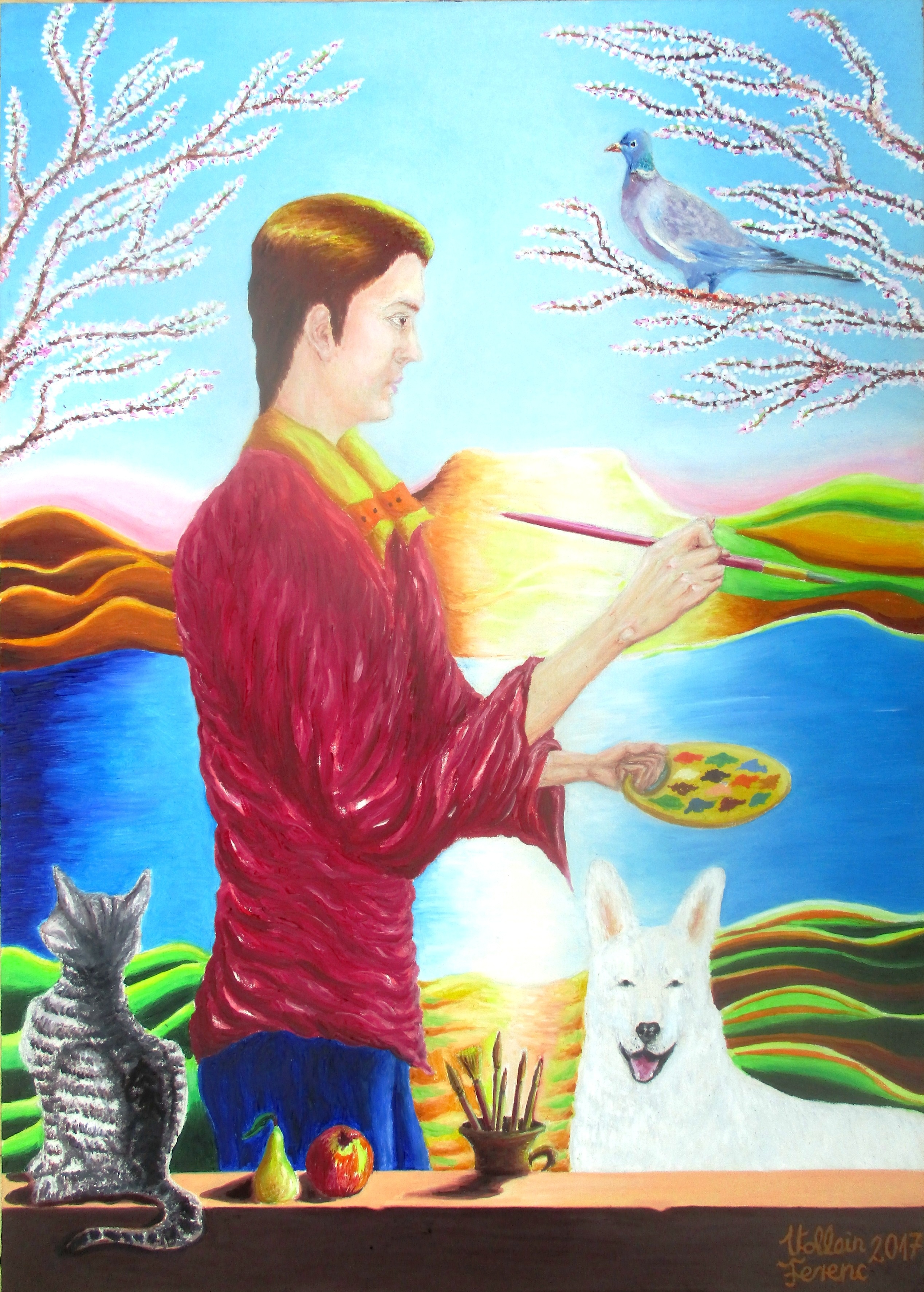 Selfportrait with Lake Balaton and with my favorites animals